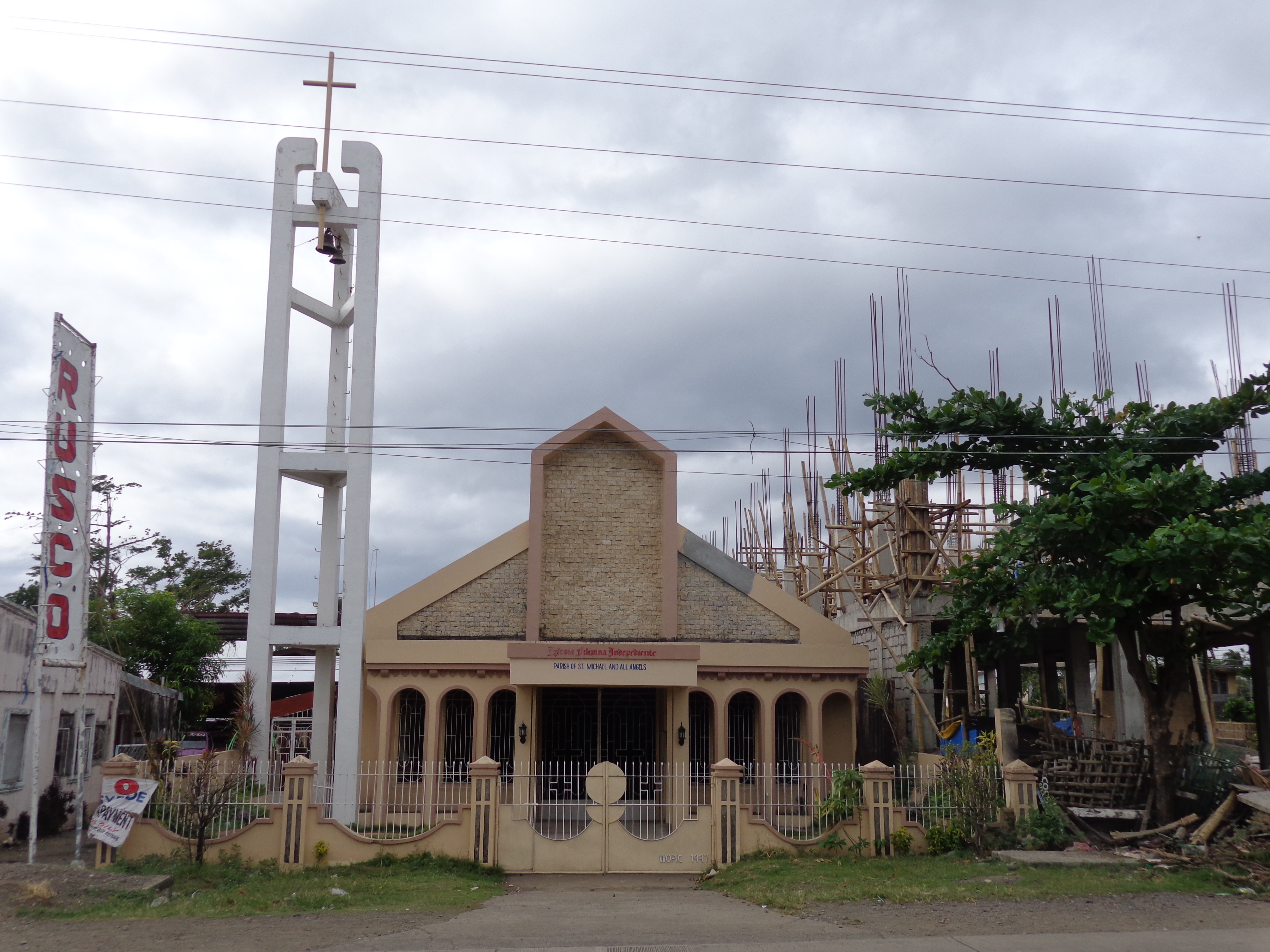 Saint Michaels and All Angels Church of the Philippine Independent Church in Culasi, Antique